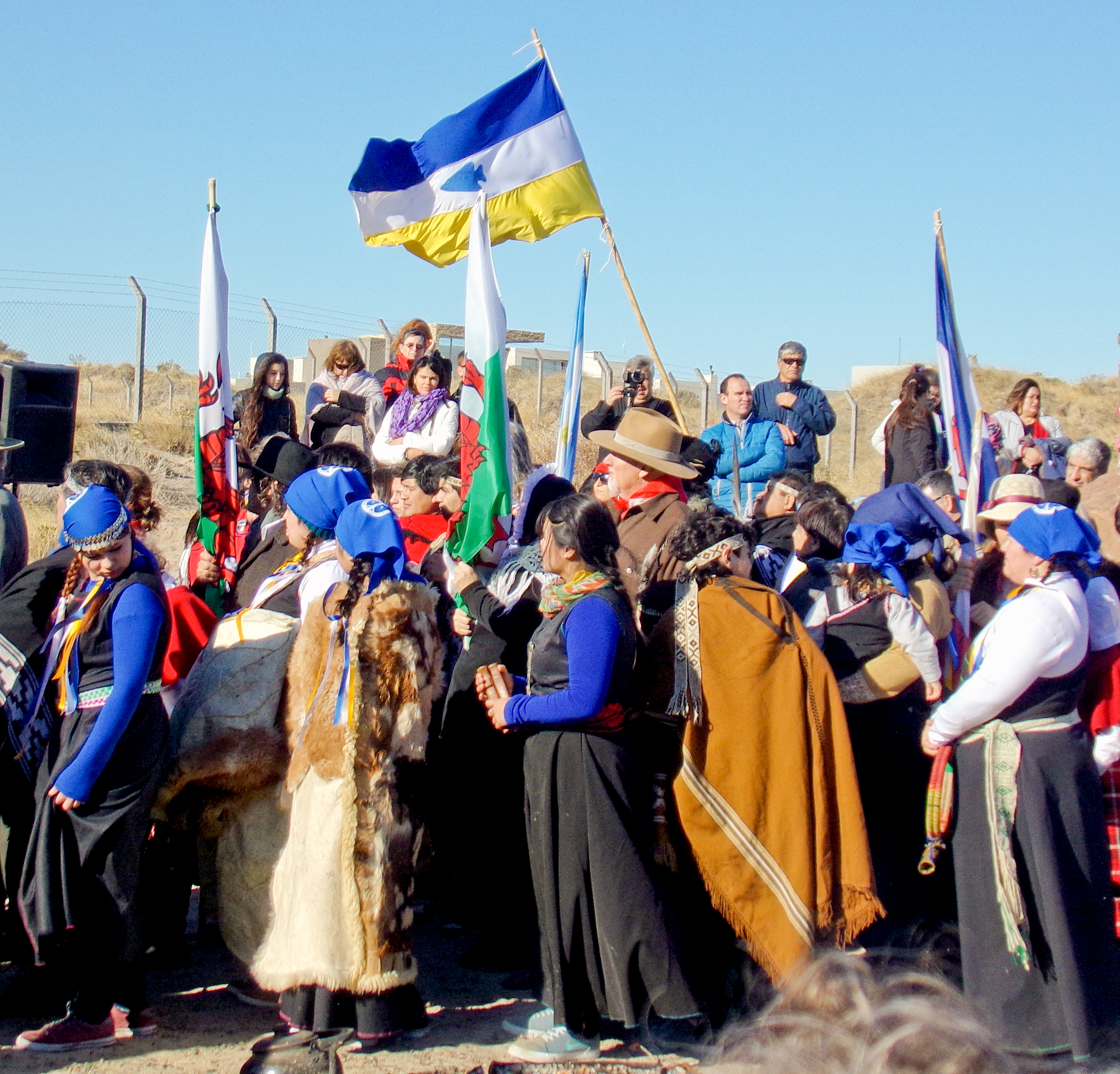 Ceremony in Punta Cuevas, Puerto Madryn. The encounter between two cultures (Welsh and Tehuelche-Mapuche) was performed. Then allusive words were read.